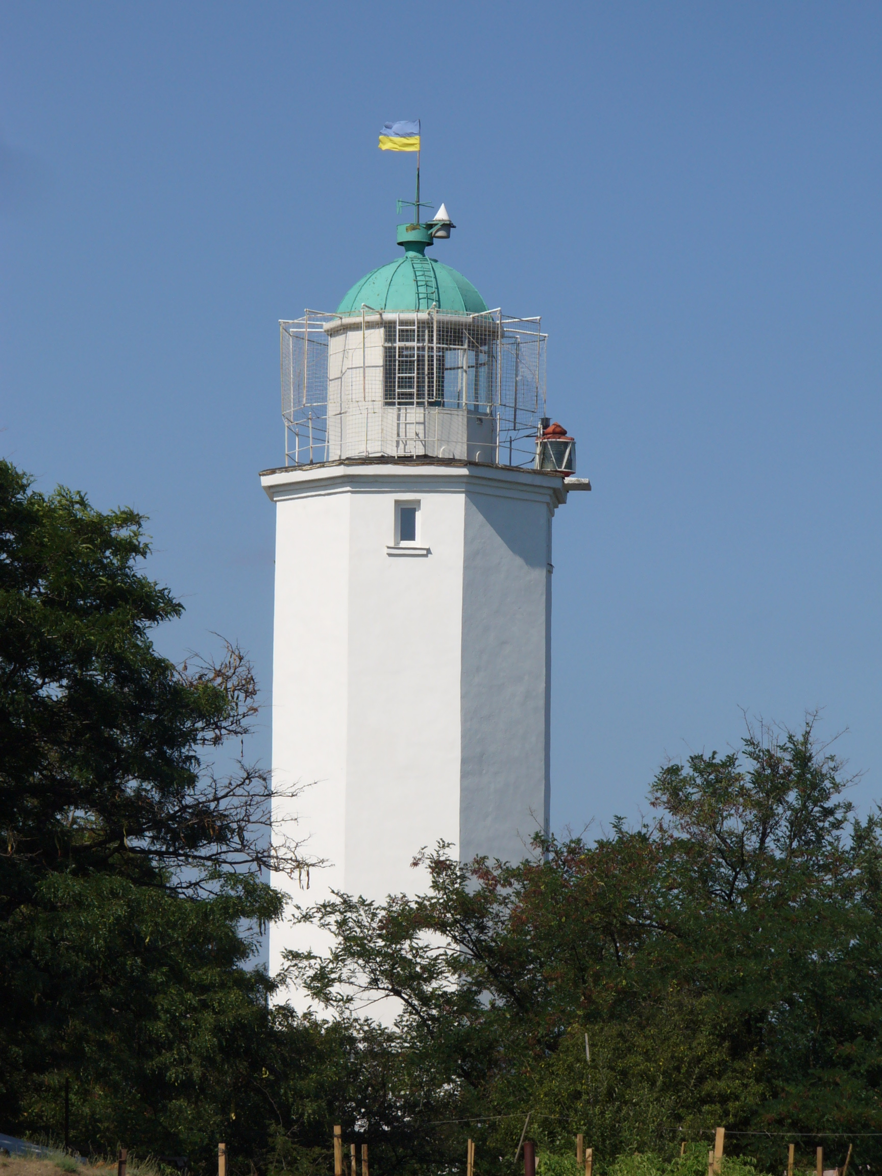 Lighthouse in Sanjeyka